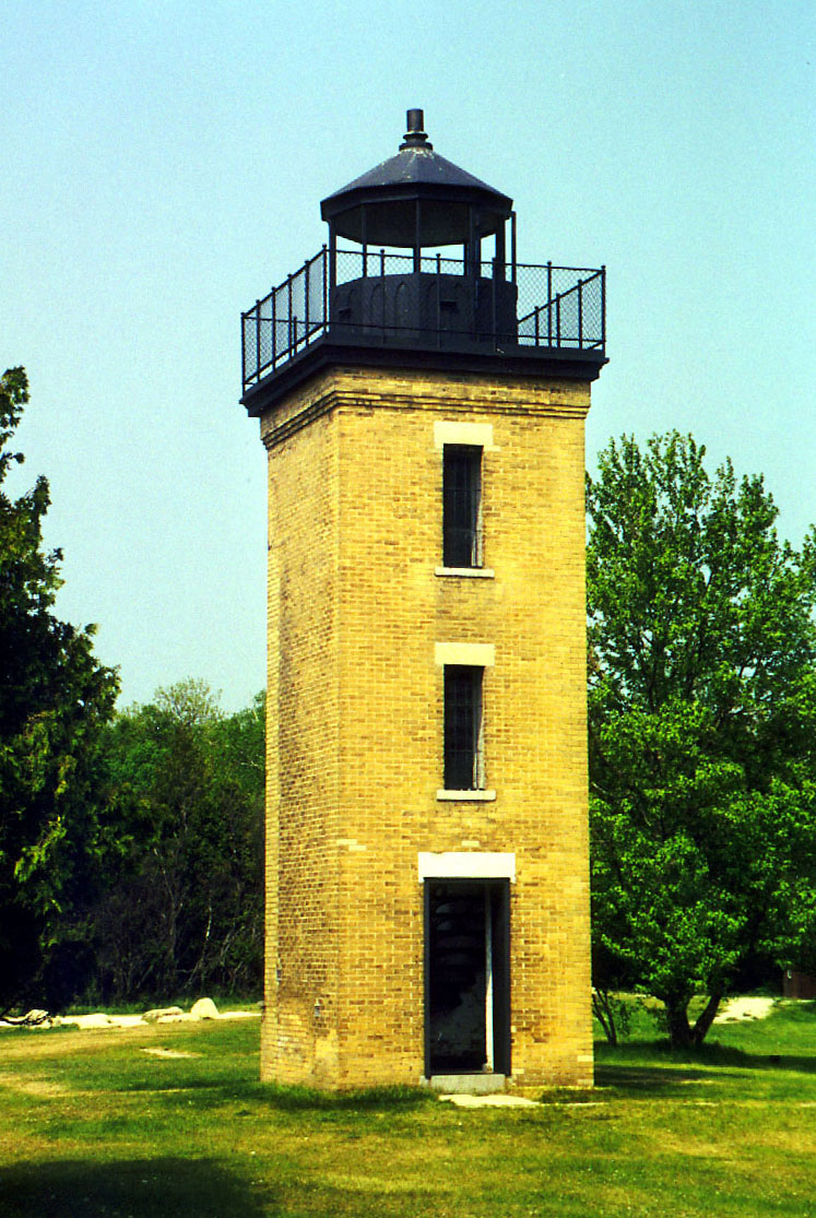 Peninsula Point Light, Michigan, USA